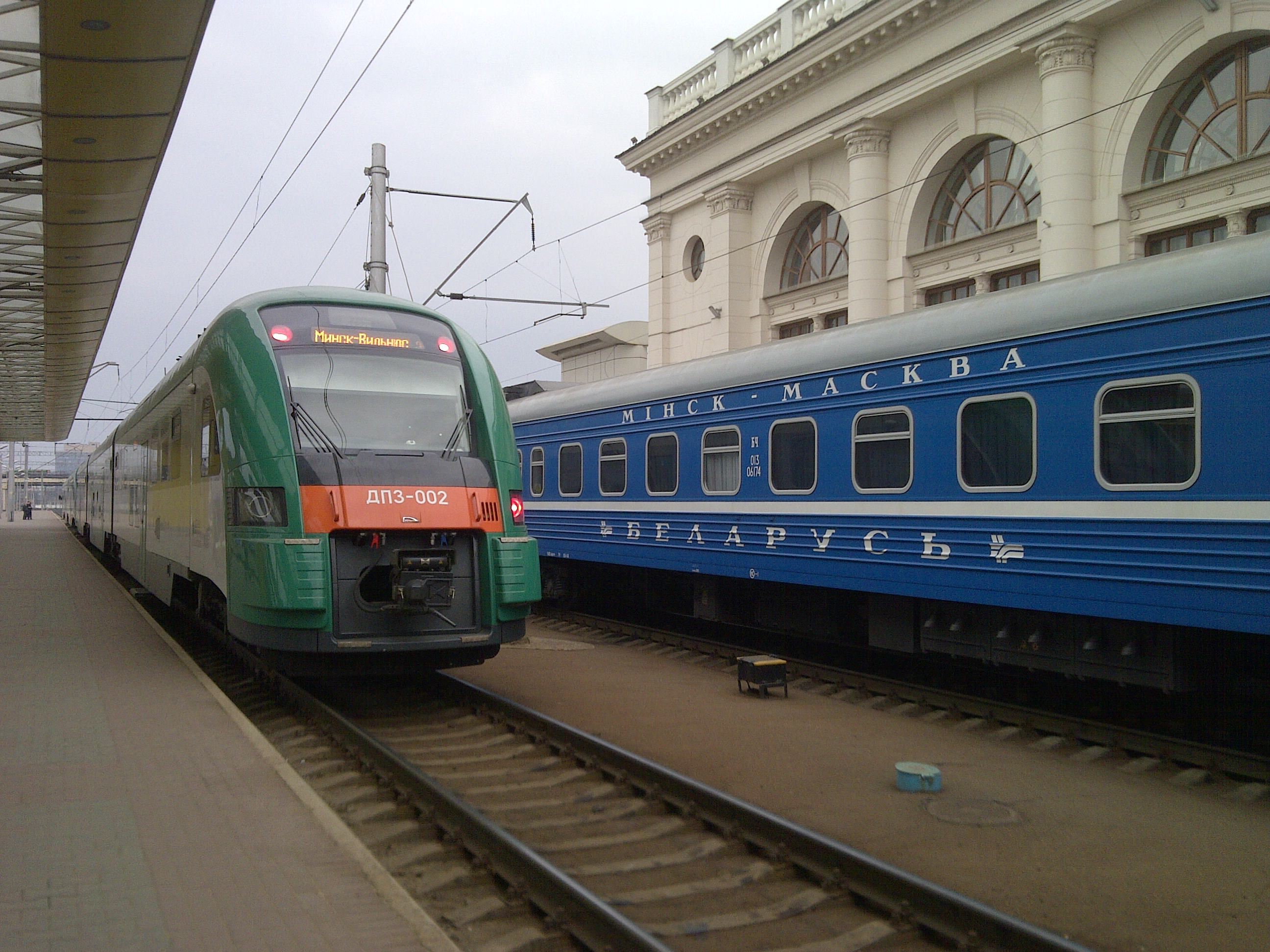 DP3-003 diesel multiple unit and "Belarus" night train (sleeping car 013 06174) at Minsk-Passazhirsky station on March 29, 2015